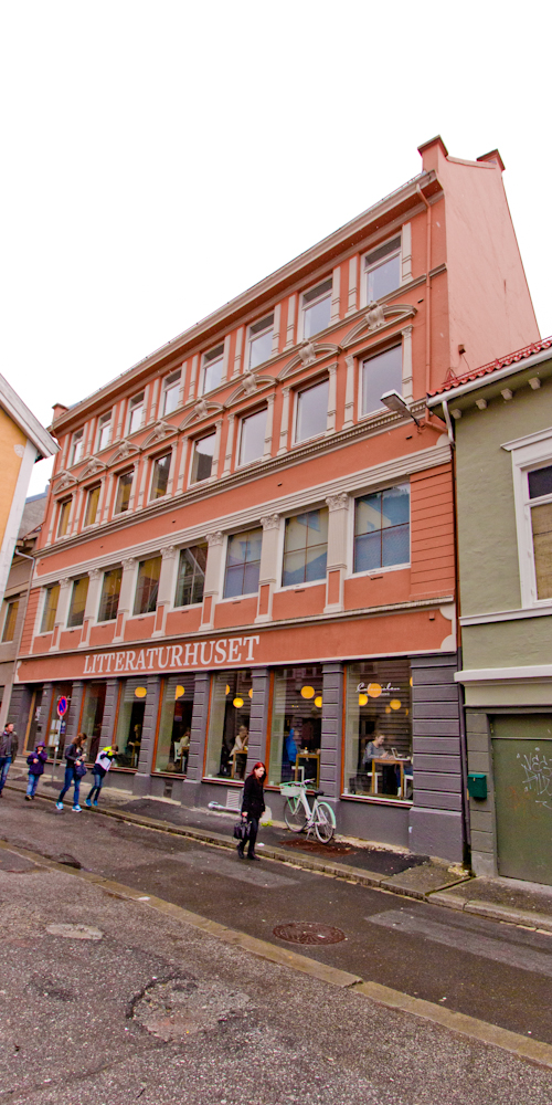 Litteraturhuset i Bergen, fasade